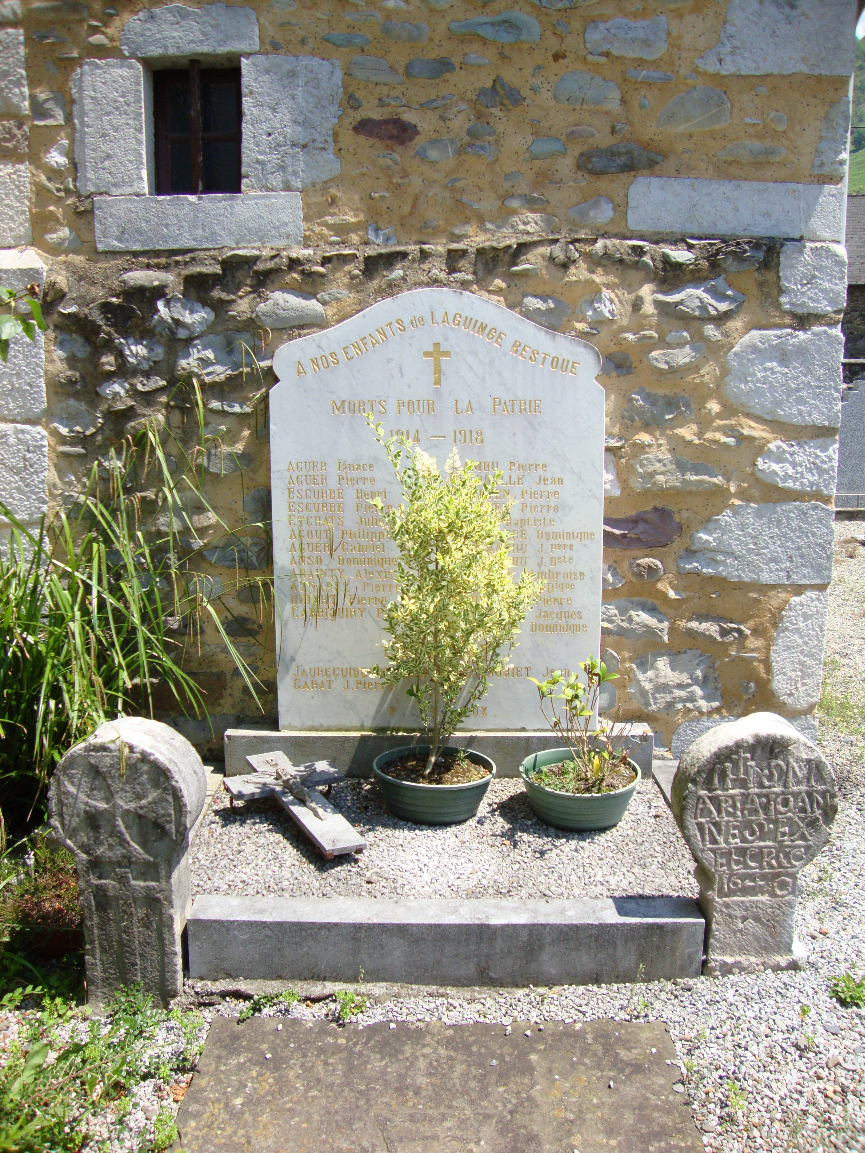 Laguinge (Laguinge-Restoue, Pyr-Atl, Fr) war memorial with basques steles